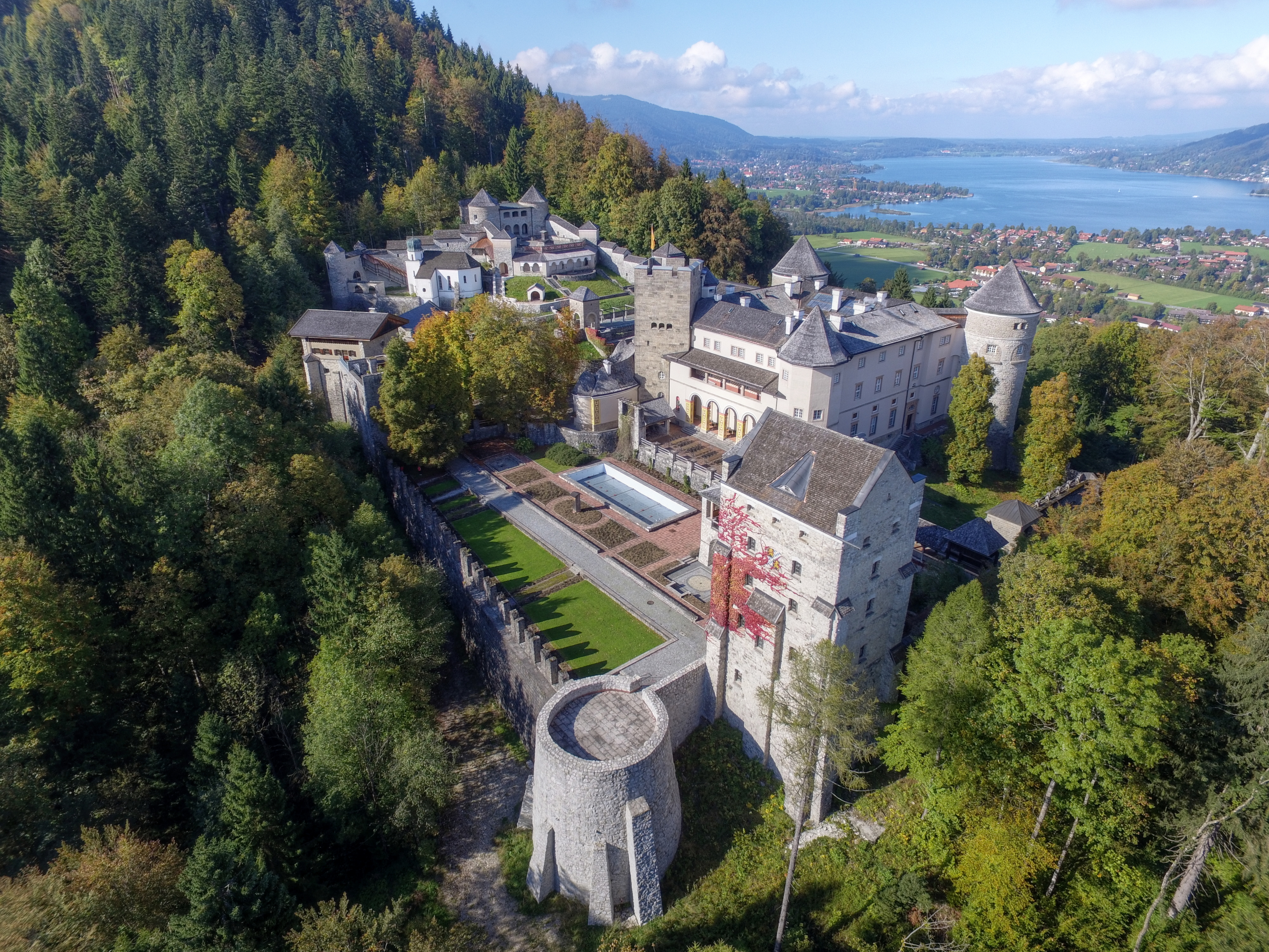 Schloss Ringberg (Ringberg Castle) aerial view with lake Tegernsee in the background.